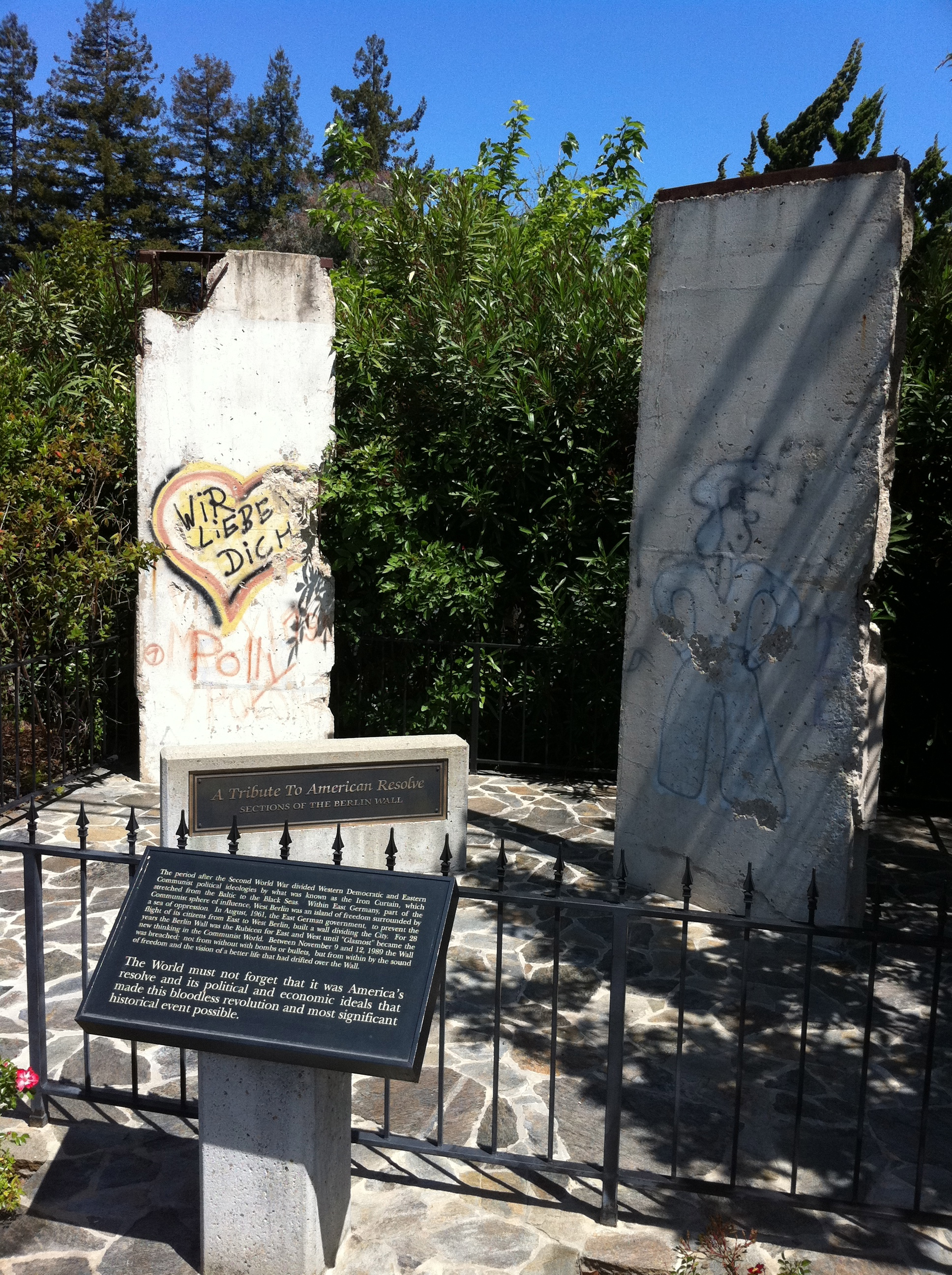 A Portion of the Berlin Wall in Mountian View, California